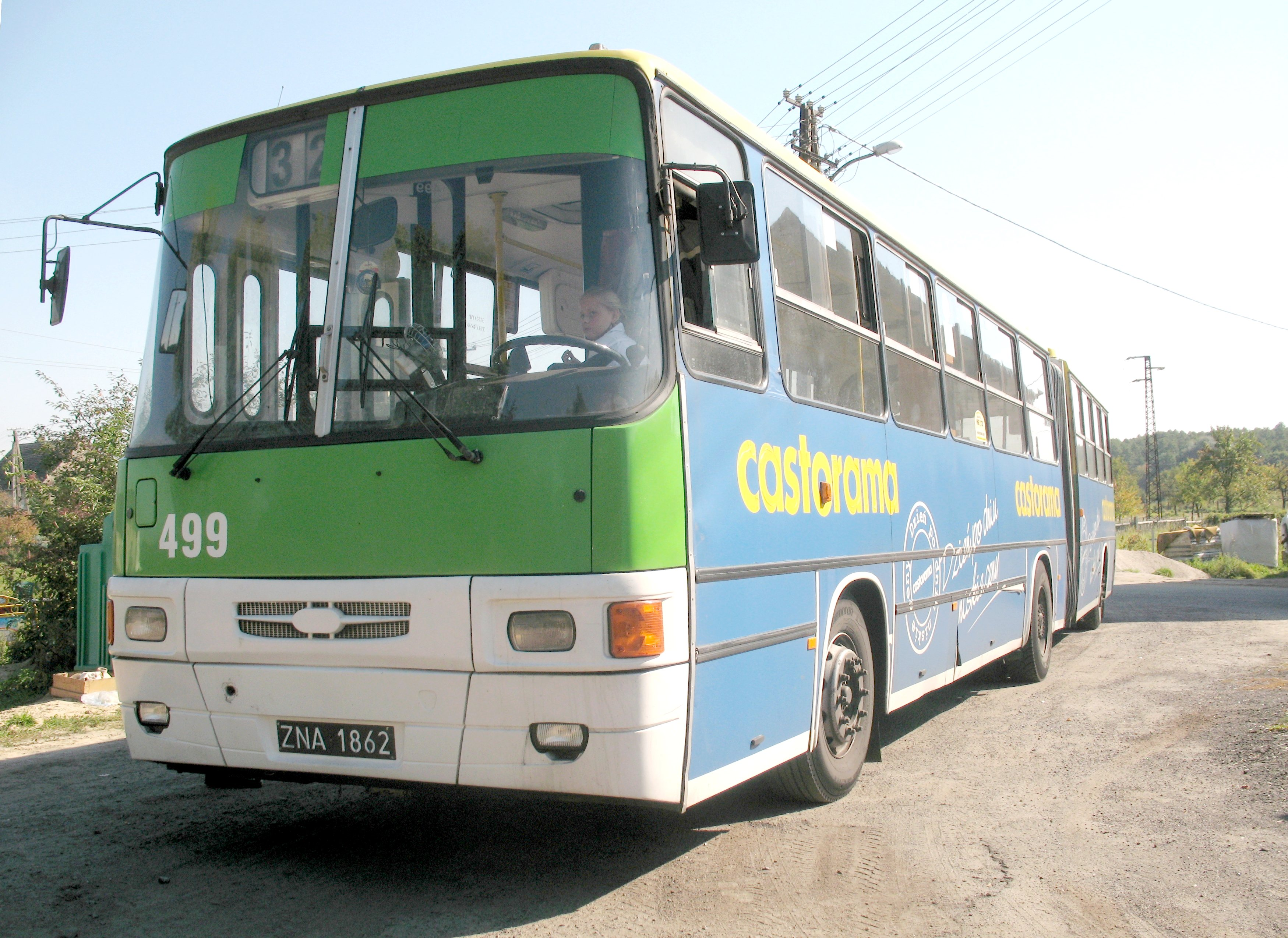 Ikarus 280.26 bus (#499) in Laski, Lubusz Voivodeship, Poland. Built 1990, MZK Zielona Góra operator.